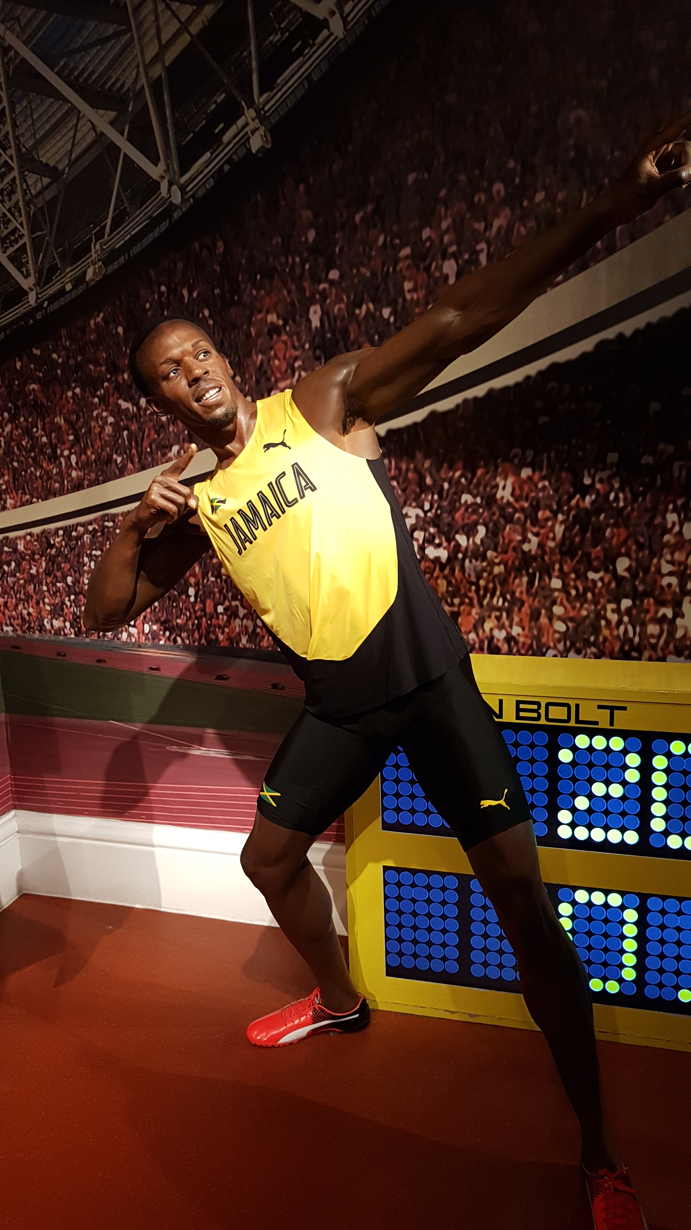 Usain Bolt at Madame Tussauds London